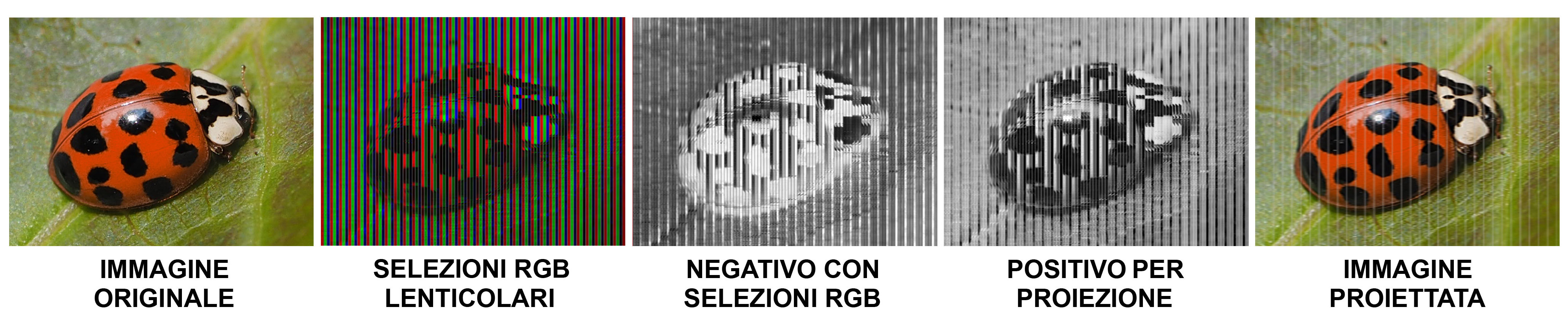 Lenticular color analysis and additive synthesis for cinematography. From left to right: 1. Original image by taken by camera; 2. Color selections (red, green, ang blue) coming out the lenticles; 3. Negative with color selections (red, green and blue); 4. Positive for projection (with color selections); 5. Image projected onto a screen.